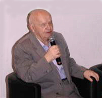 prof. Janusz Tazbir - a Polish historian.